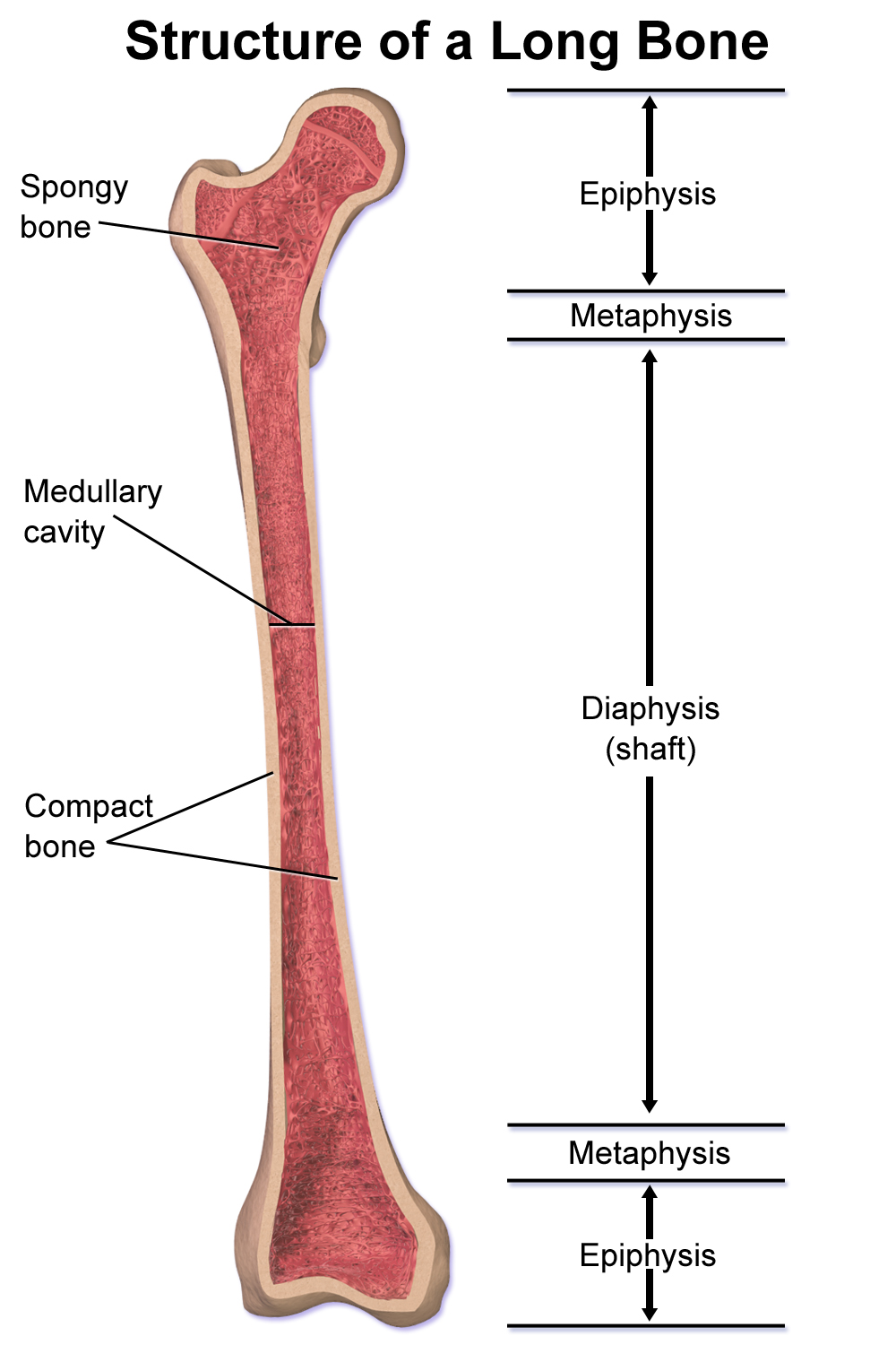 Long Bone. See a full animation of this medical topic.